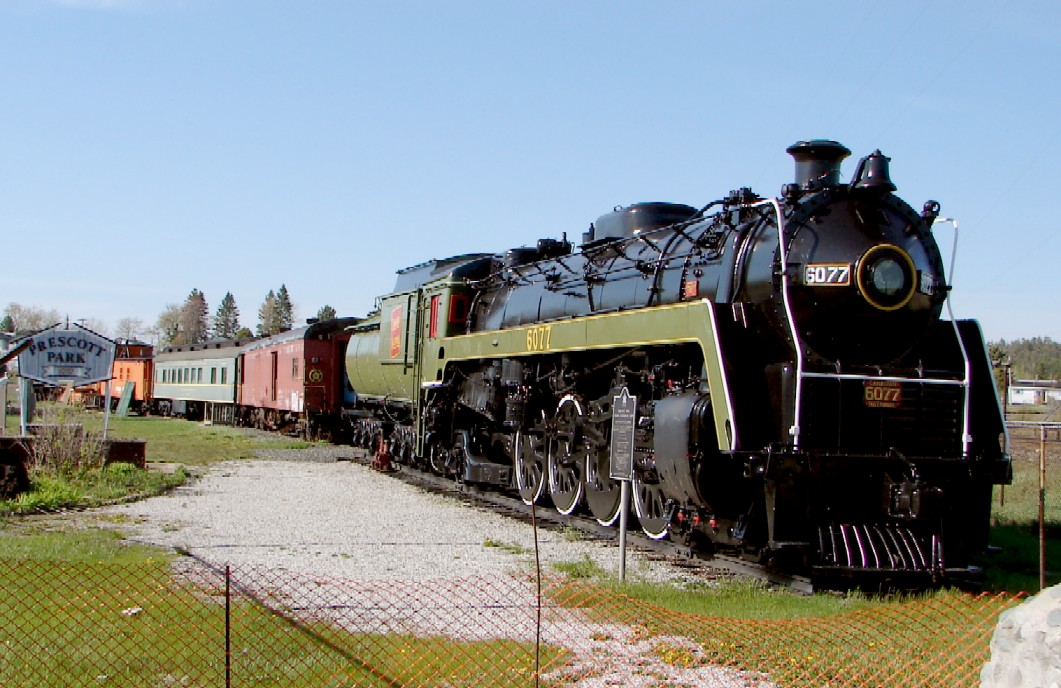 Prescott Park in Capreol, part of Greater Sudbury, Ontario, Canada